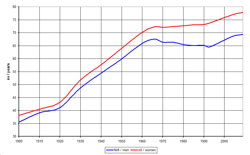 Life expectancy in Hungary (1900-2009)